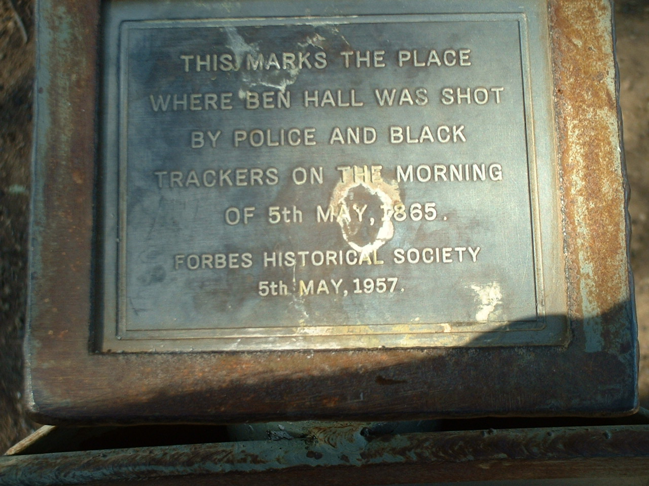 Close up of the plaque at Billabong Creek, where Australian bushranger Ben Hall was shot dead. The site is about 20 kilometres north west of Forbes, New South Wales.